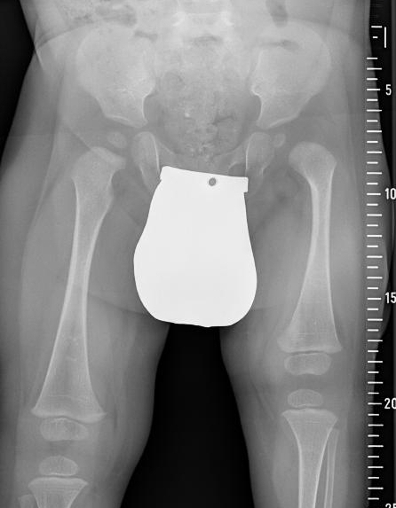 10/12 PFFD Pappas VII Coxa vara, Sclerosis